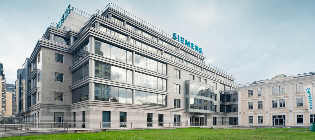 Headquarters of Siemens in Russia. Moscow